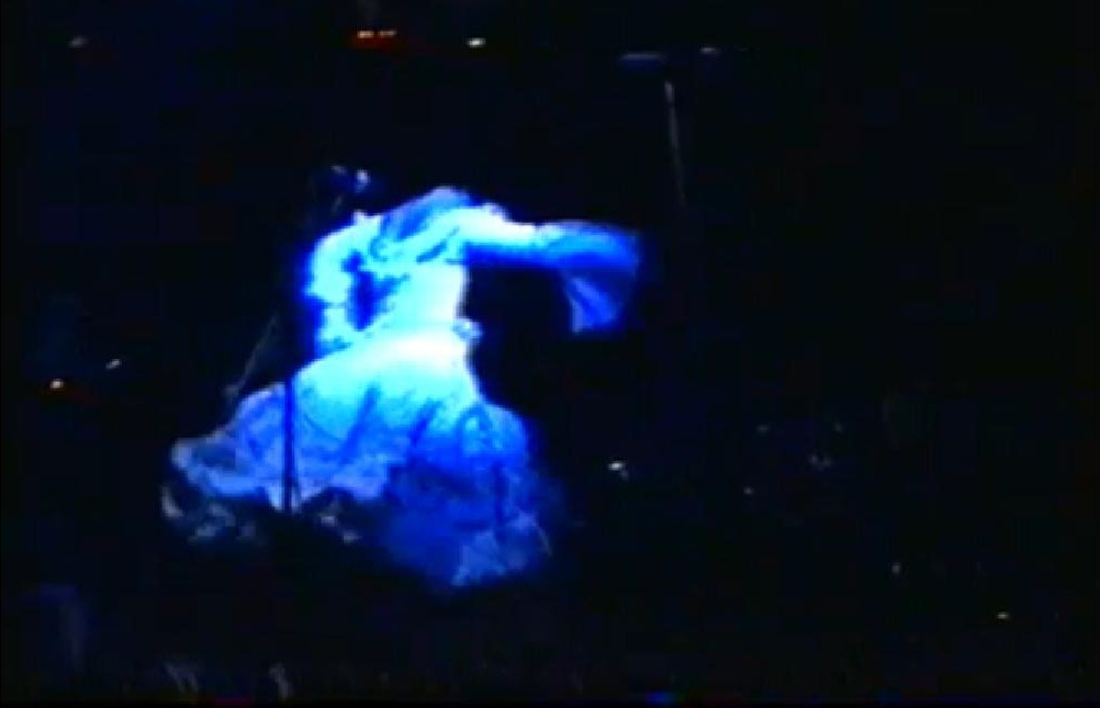 Dancing. Evi Hassapides Watson with Echo Tattoo Live @ West Club, Athens, Greece. Εύη Χασαπίδου. Στη σκηνή του West.